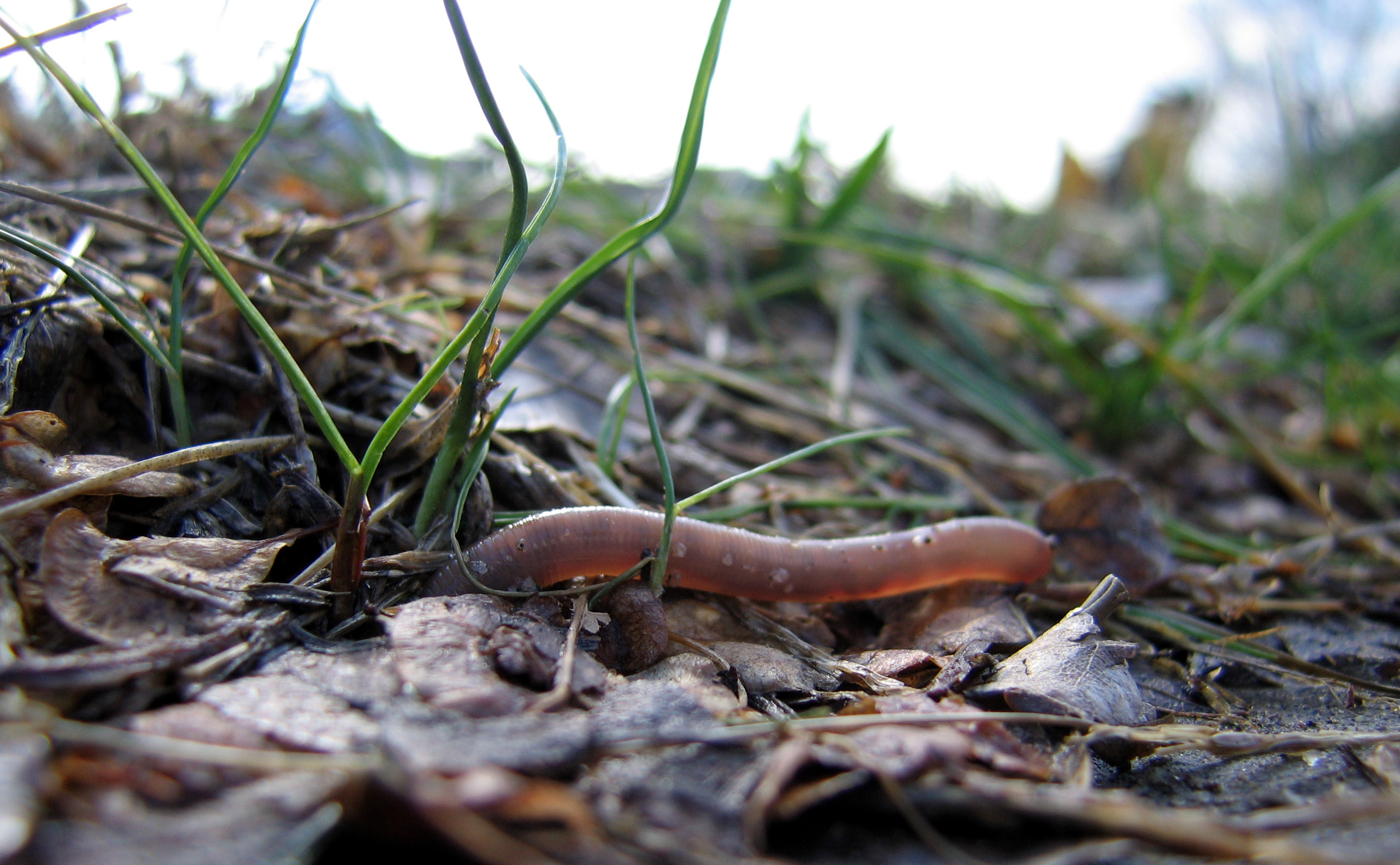 earthworm on ground in Durham (North Carolina). It is a adult Lumbricus terrestris probably on a mild day in winter.